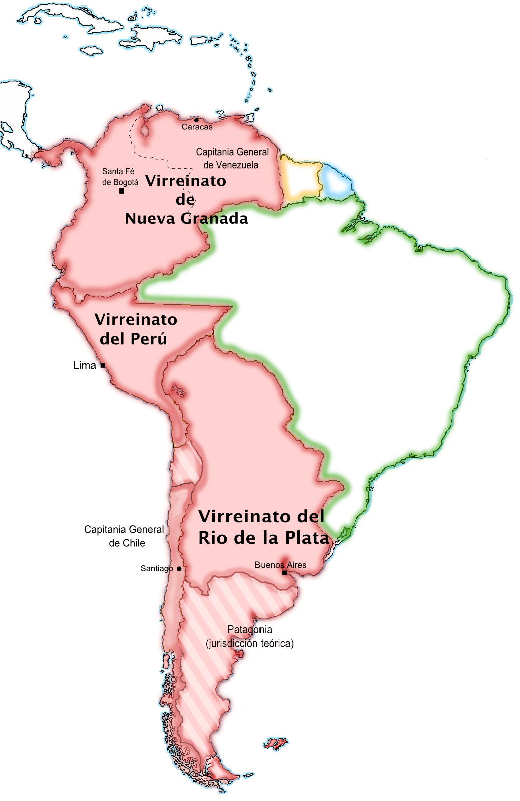 Spanish colonies in South America — in the 18th century.